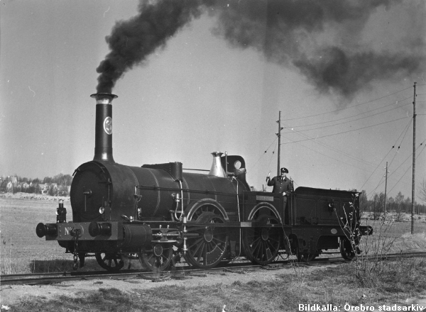 The locomotive Prince August